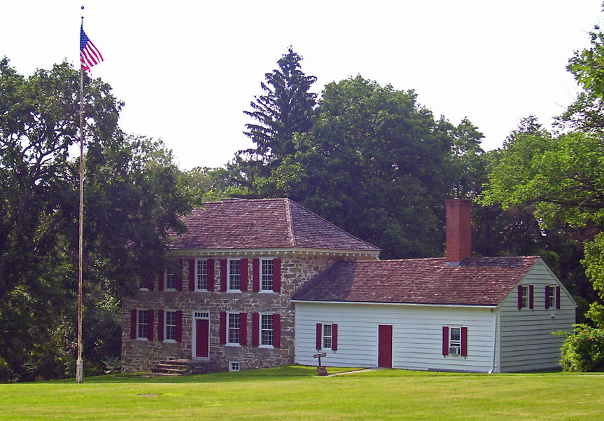 Photographed by Daniel Case 2006-07-01